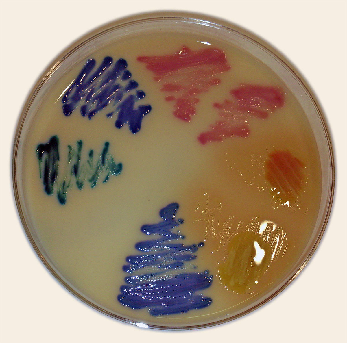 UTI Agar is a chromogenic medium for identification and differentiation of main microorganisms that cause urinary tract infections (UTIs). On the agar plate you can see the following colonies: Pink - E. coli; Blue-green/turquoise - Enterococcus spp.; Dark blue - Klebsiella spp.; Light brown with a red dot - Proteus mirabilis; Light brown - Proteus spp.